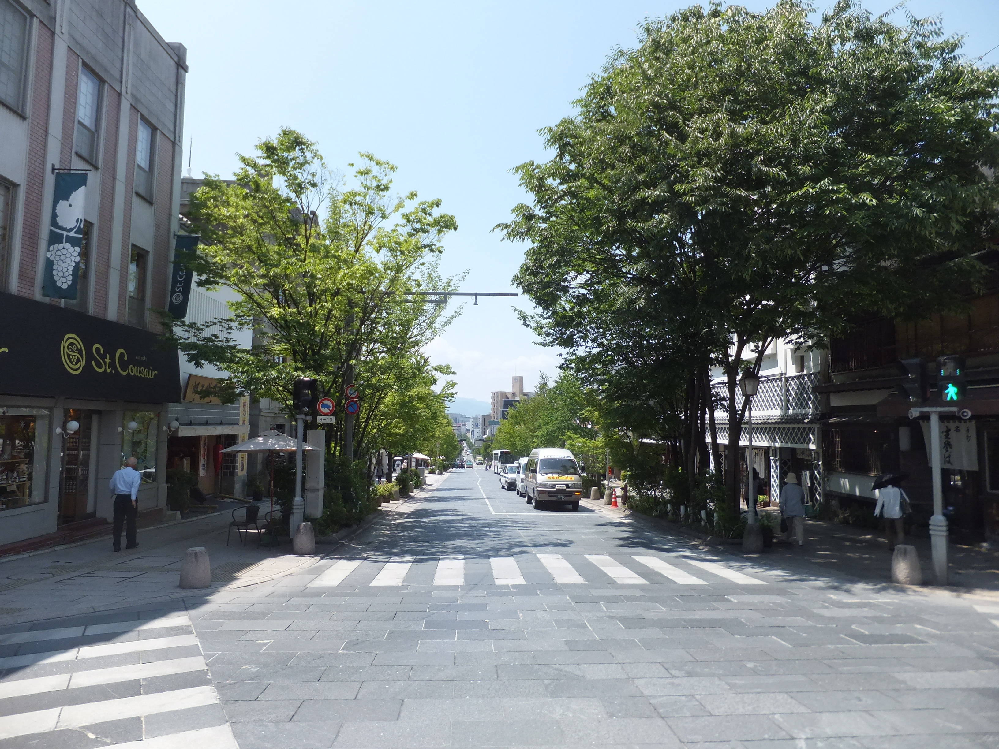 Chuo Street is an avenue in Nagano City that runs north and south and that is an approach to the Zenkō-ji.